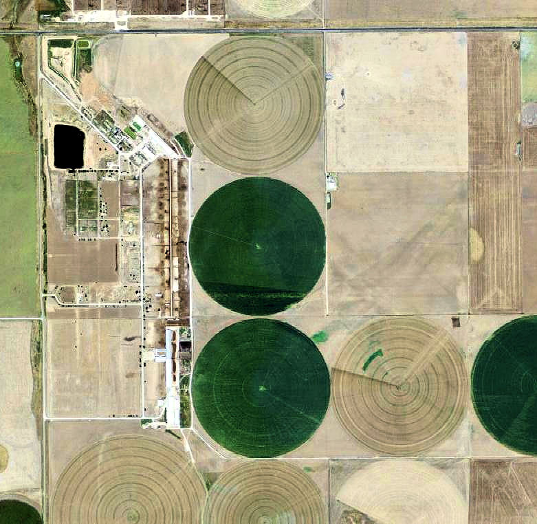 USGS digital orthophoto of Pampa Army Airfield in Texas